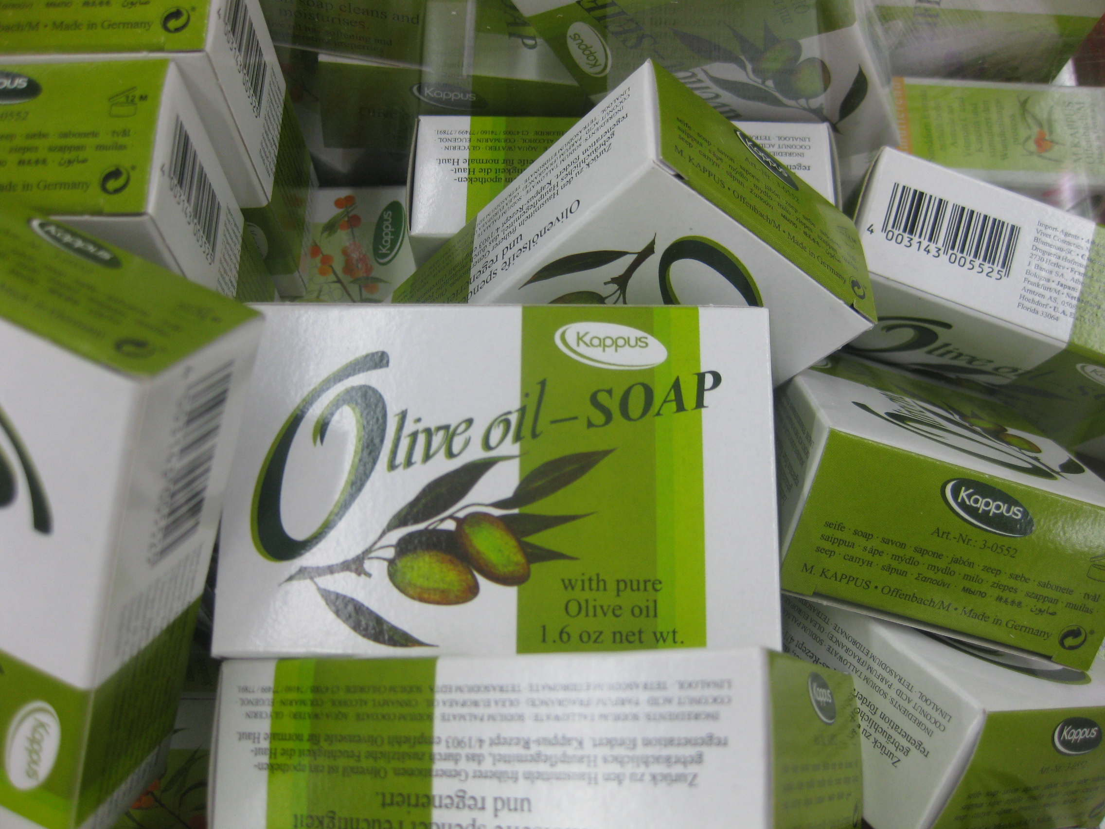 Kappus Olive Soap